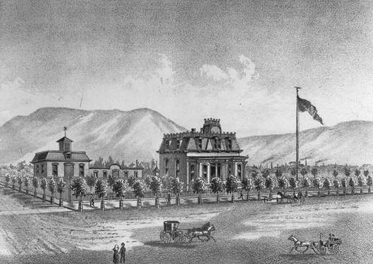 Illustration showing Pioneer Park, Aspen, Colorado, USA, as it appeared a few years after its construction